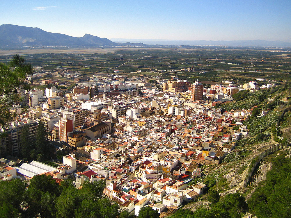 Aerial view of Cullera, land of Valencia, Spain